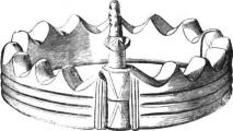 So called wendische Krone, a bronze ring from c. BC 300, found 1823 in Langen-Trechow (near Bützow); it became a symbol for Mecklenburg Identity in the 19th century; this picture taken from Robert Beltz, Richard Wagner: Die Vorgeschichte von Mecklenburg. 1899, p. 100 By